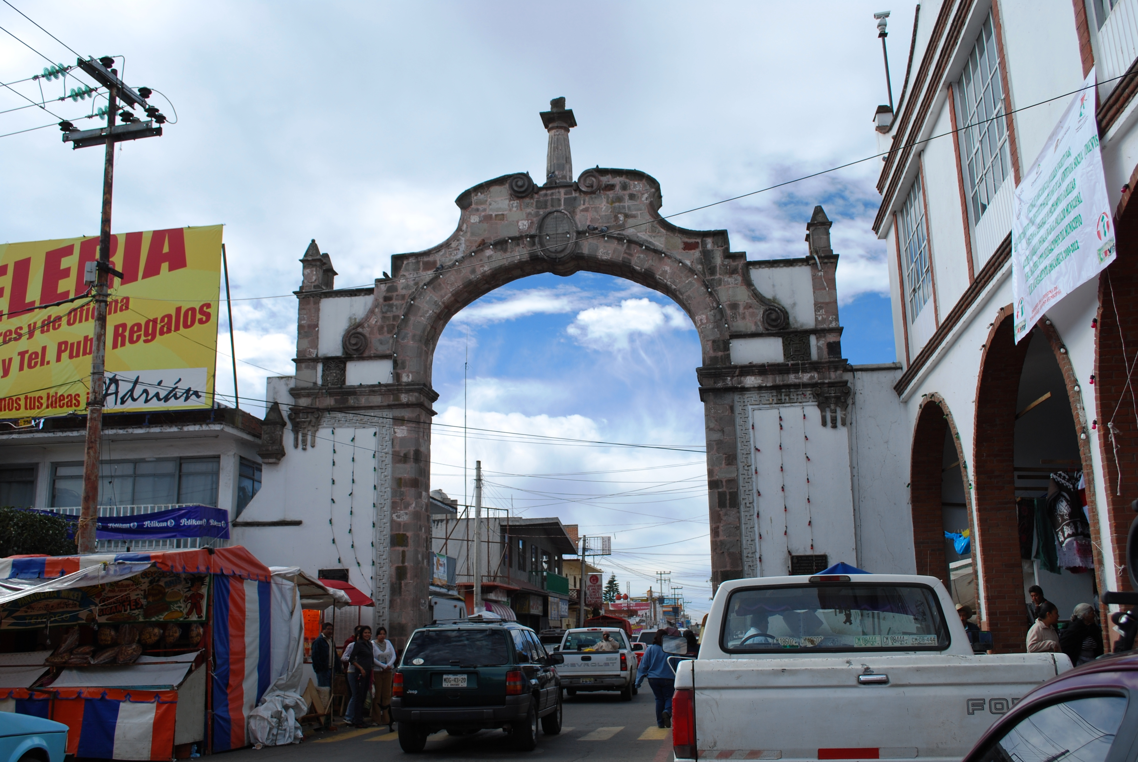 Old city gate of Amecameca, Mexico State